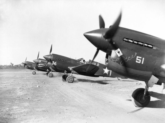 A line up of four U.S. Army Air Forec Curtiss P-40E Warhawk aircraft of the 8th Pursuit Squadron, 49th Pursuit Group at Darwin, Northern Territories (Australia) on 19 June 1942. The aircraft closest to the camera (No. "L Ace") was flown by Lieutenant James Bruce Morehead who shot down seven Japanese aircraft while flying out of Darwin. Captain W.J. Hennon, who has shot down at least five Japanese aircraft, is sitting in the cockpit of P-40 No. 36. Note the whitened former red circle of the US national insignia.